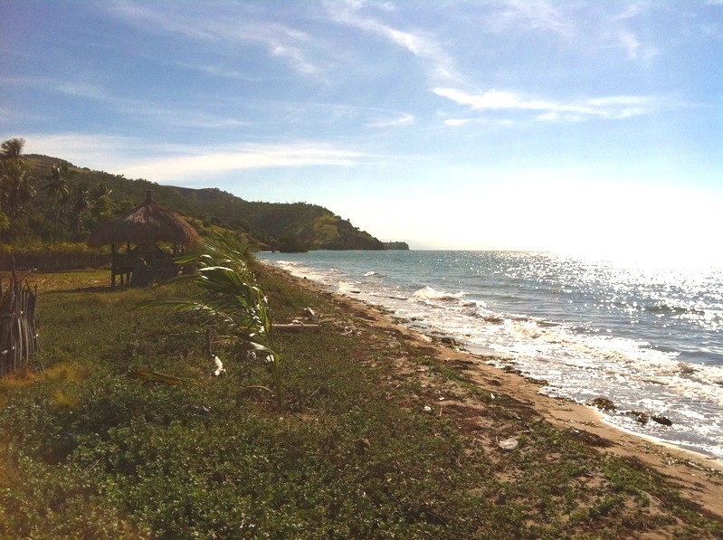 Coast of Atauro at Beloi